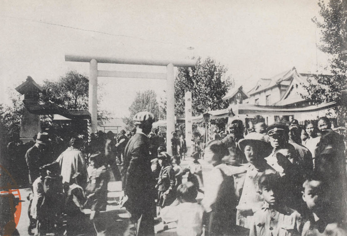 In front of Fushun Shrine (Bujun Jinja) during matsuri